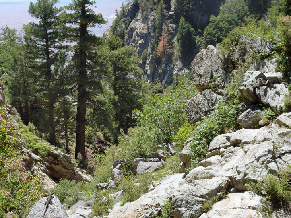 Canyon in the Pinaleno Mountains, Arizona. Transwiki approved by: User:Dmcdevit. This image was copied from en. The original description was: USDA Forest Service.